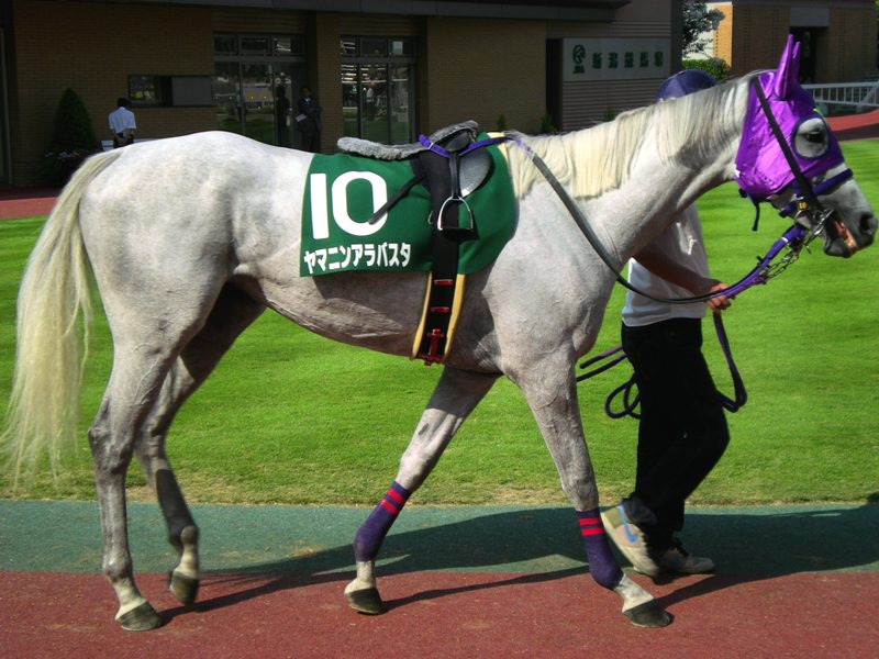 Yamanin Alabaster